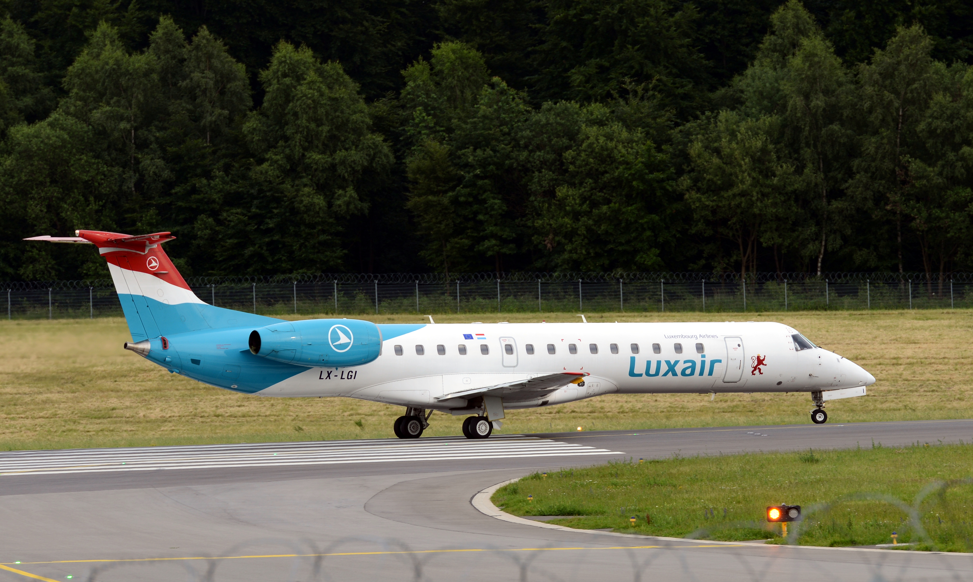 LX-LGI ready for takeoff from Luxembourg-Findel International Airport.